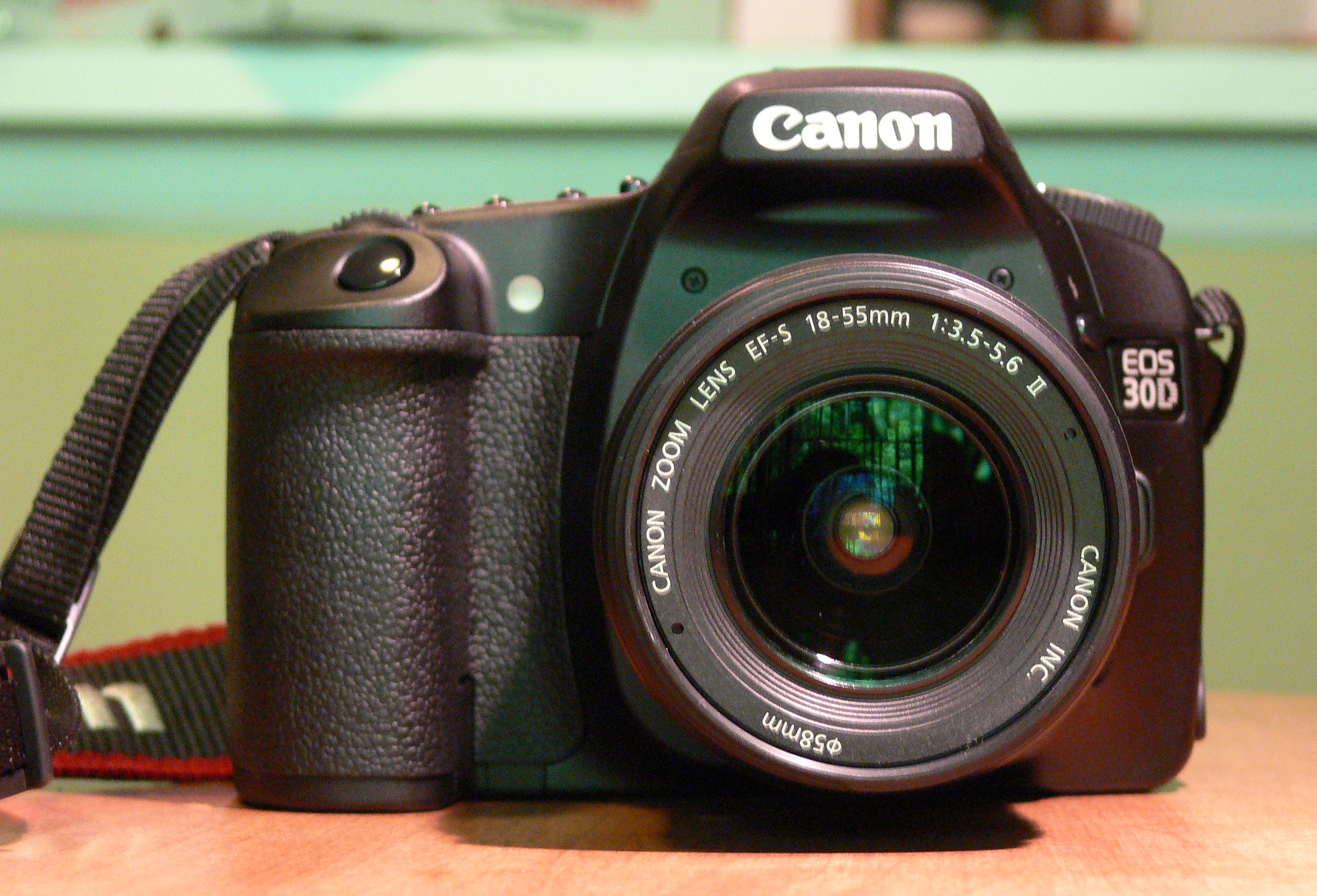 Front view of a Canon EOS 30D Digital Camera, with Canon EF-S 18-55mm Zoom Lens attached.